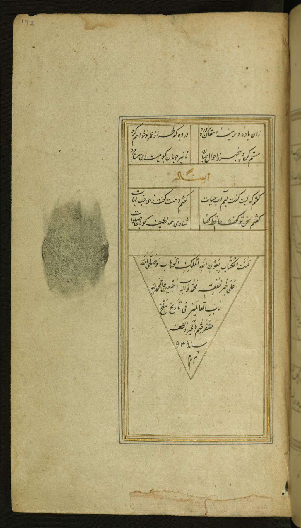 This folio from Walters manuscript W.631 contains a colophon in partly vocalized Arabic in the shape of a triangle. The colophon gives the date of copying.